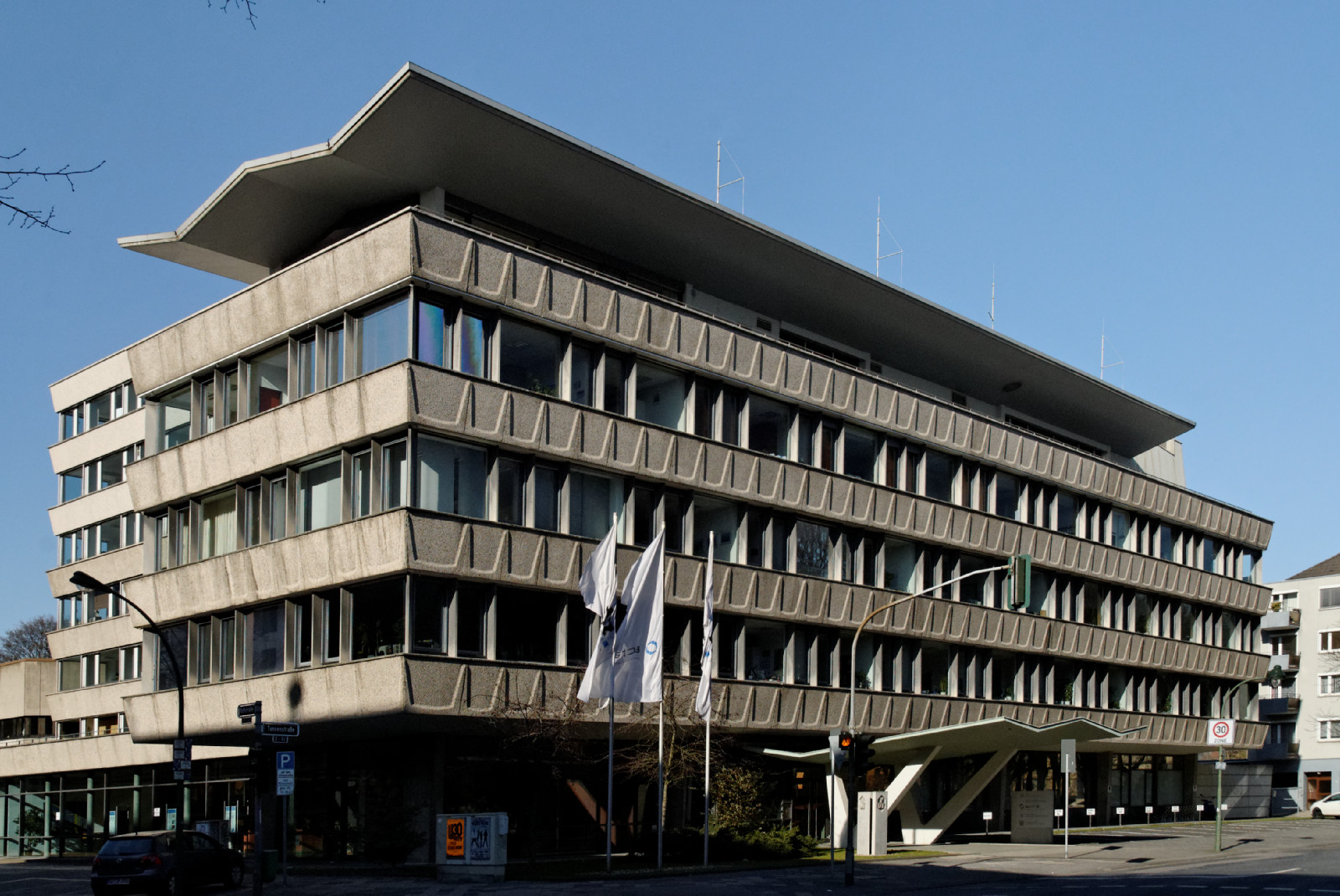 Building Tannenstraße 2 in Düsseldorf-Derendorf, Germany